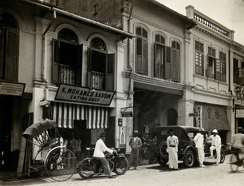 Kuala Lumpur: An arcade of shops with a road sweeper at work in the street.